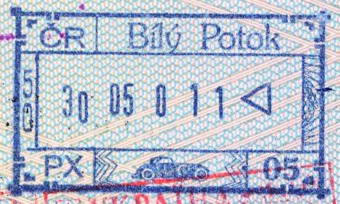 Pre-Schengen passport stamp from Bílý Potok in Jeseník District, 2005. Border crossing into Poland at Paczków.